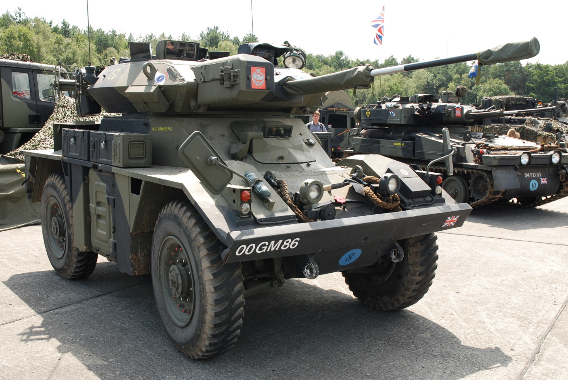 Armoured fighting vehicle of the United Kingdom FV 721 Fox